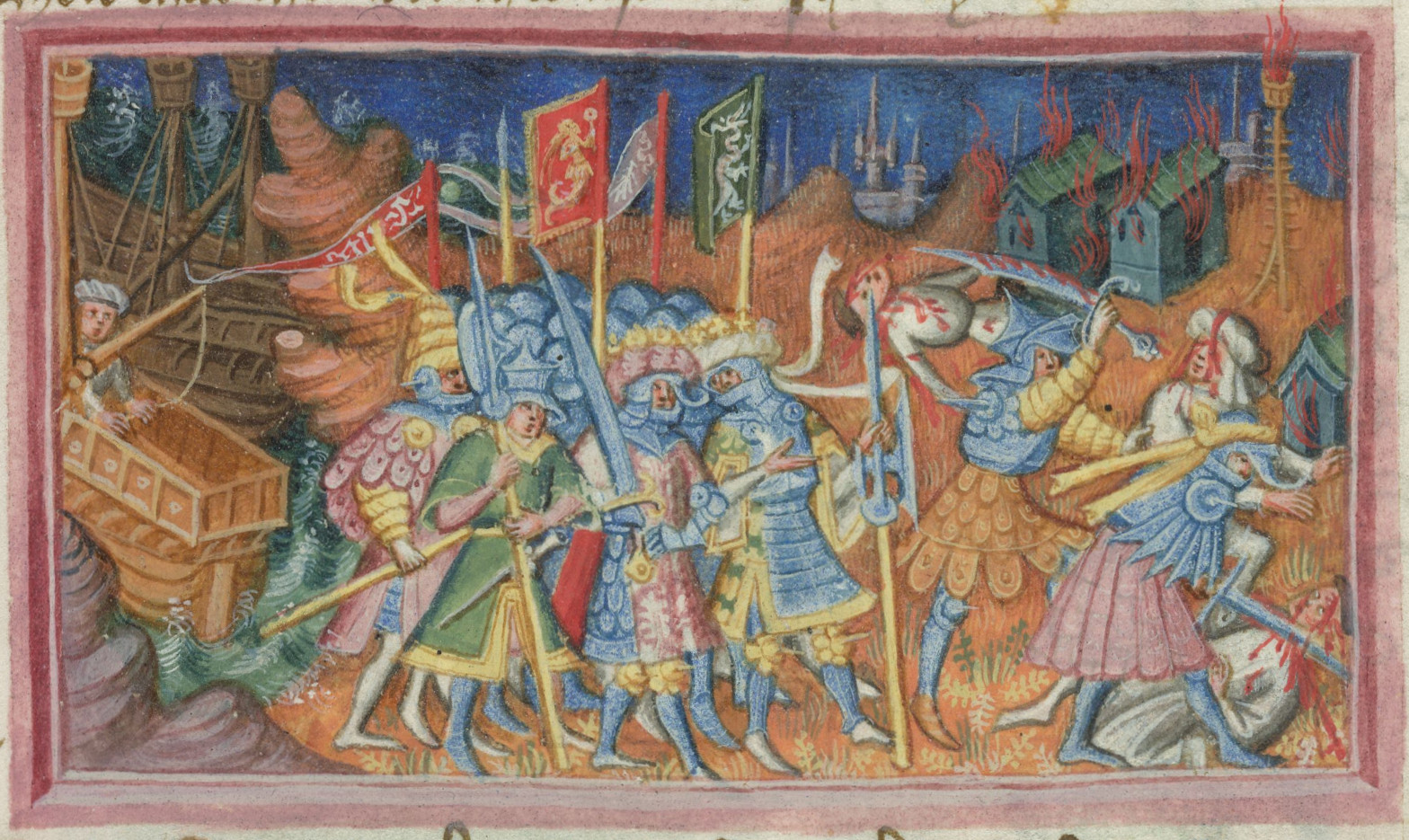 Excerpt from folio 48r of Harley MS 2278. The scene depicts brothers Hinguar and Hubba slaying Christians in the north of England.